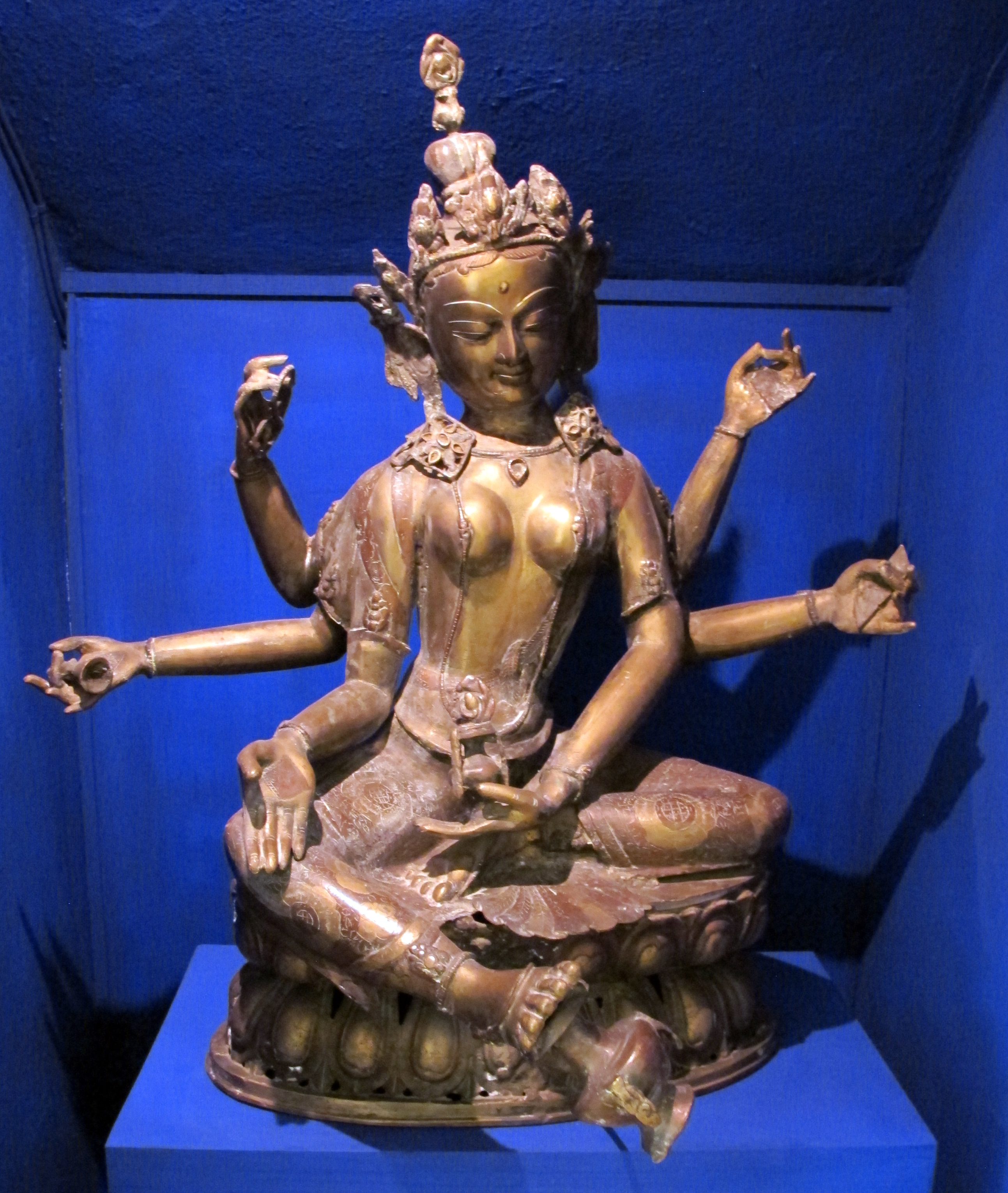 Museo di storia naturale (Florence) - Anthropology and Ethnography section - India